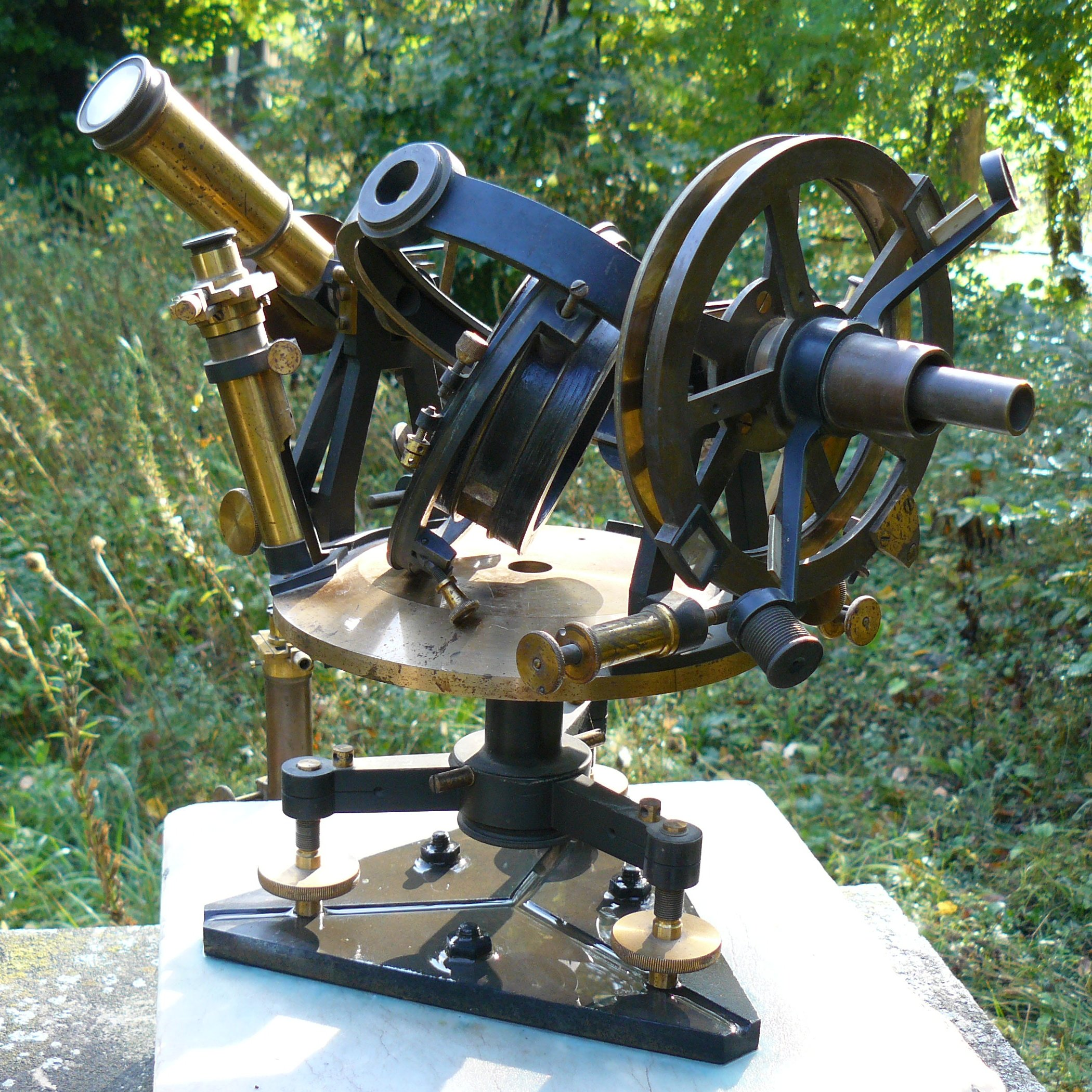 Amagnetic theodolite used by Ștefan Hepites for the geomagnetic mapping of Romania (about 1900).